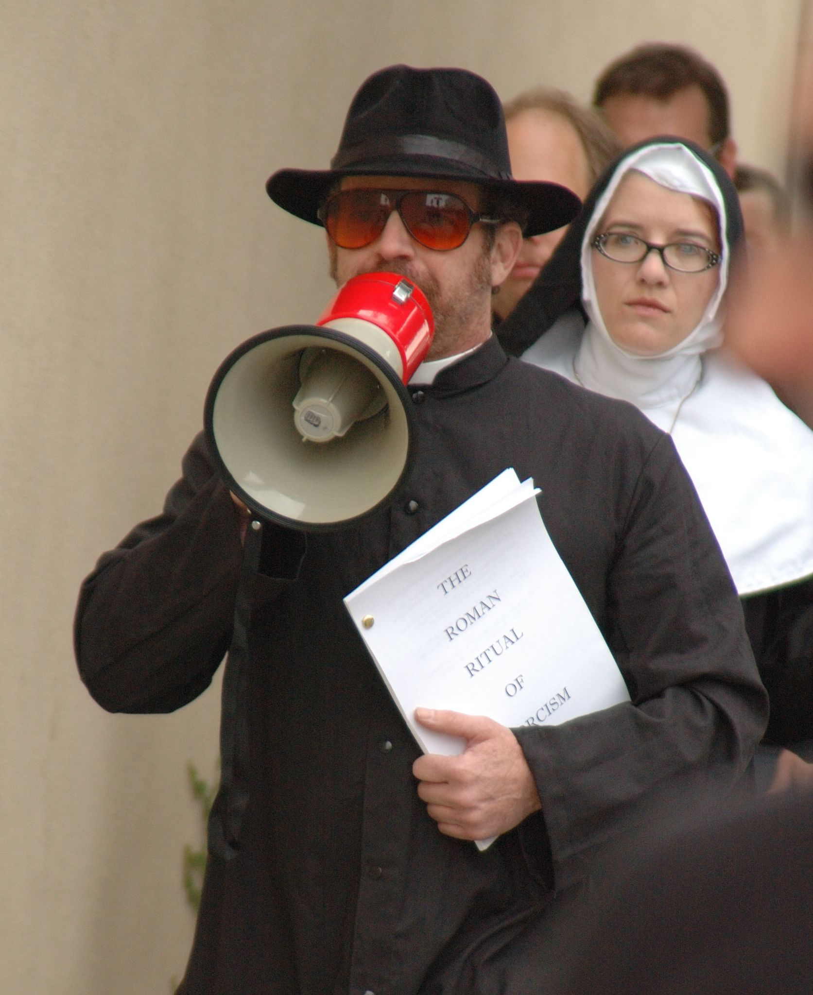 Scriptwriter Scott Kosar during the 2007 WGA strike.